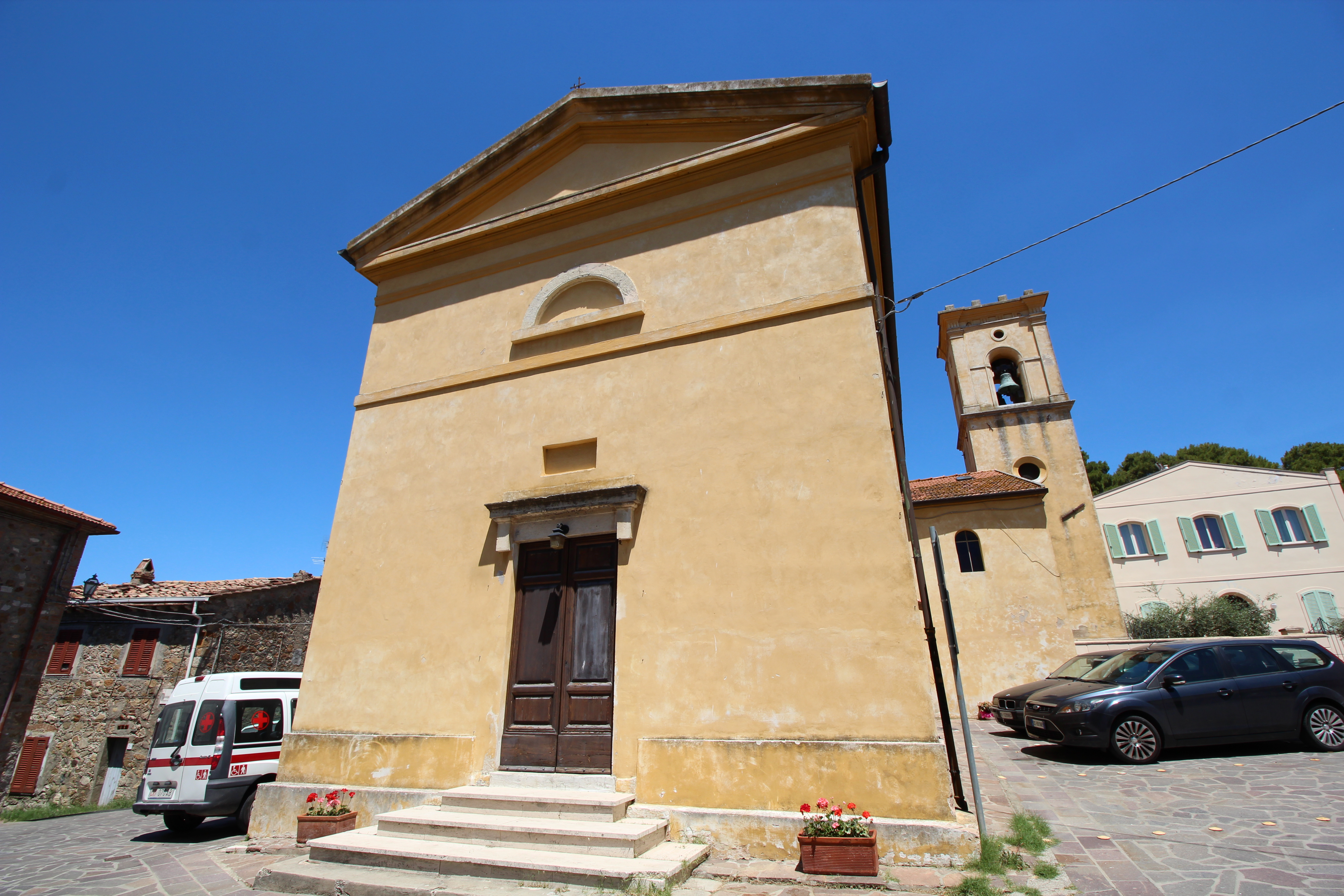 Church Santo Stefano Protomartire, Pomaia, hamlet of Santa Luce, Province of Pisa, Tuscany, Italy